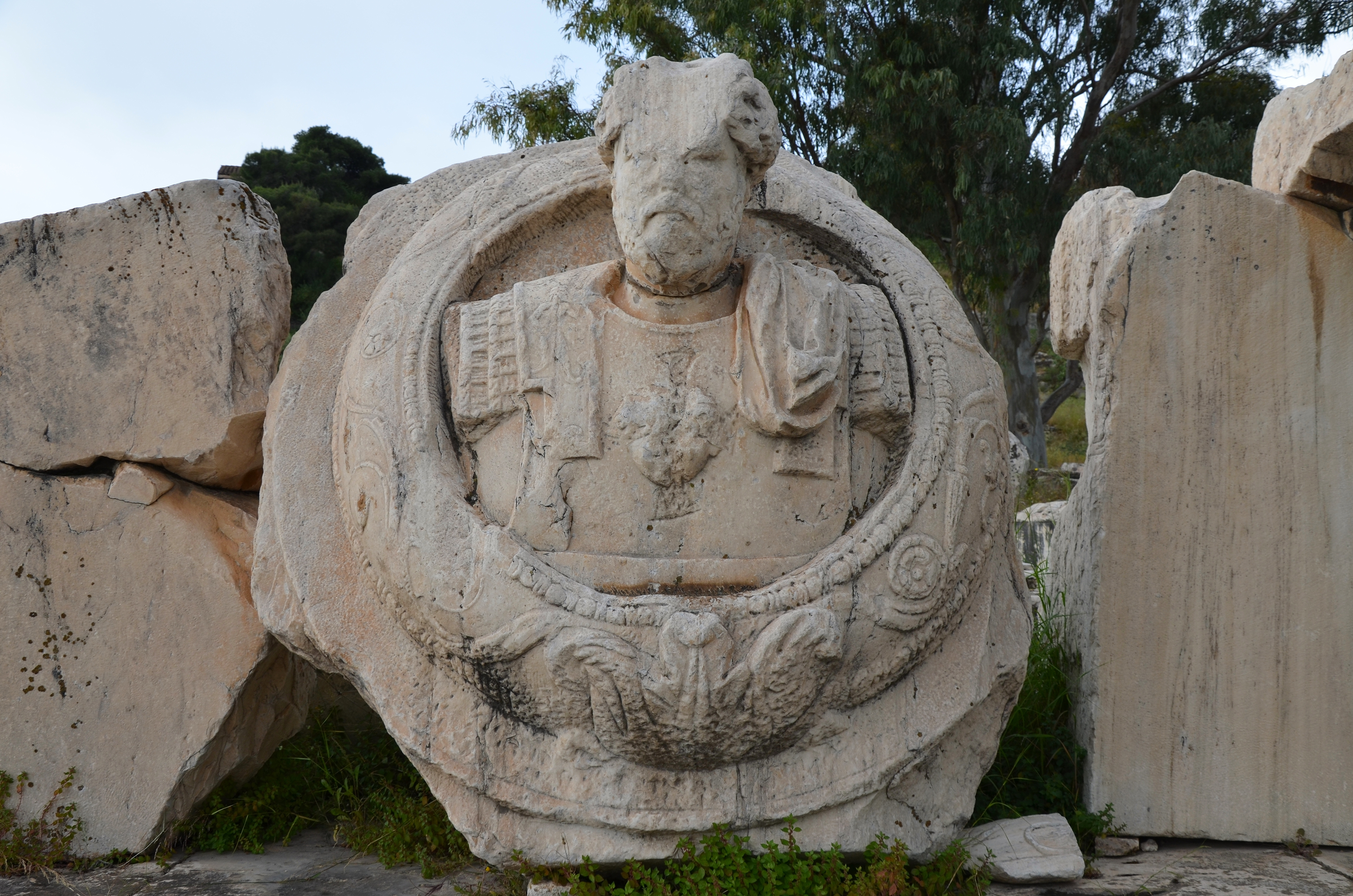 This cuirassed bust of an emperor was installed at the centre of the pediment of the Greater Propylaea. Although the face is badly damaged, it is thought to be a portrait of the emperor Marcus Aurelius who built the Greater Propylaea.